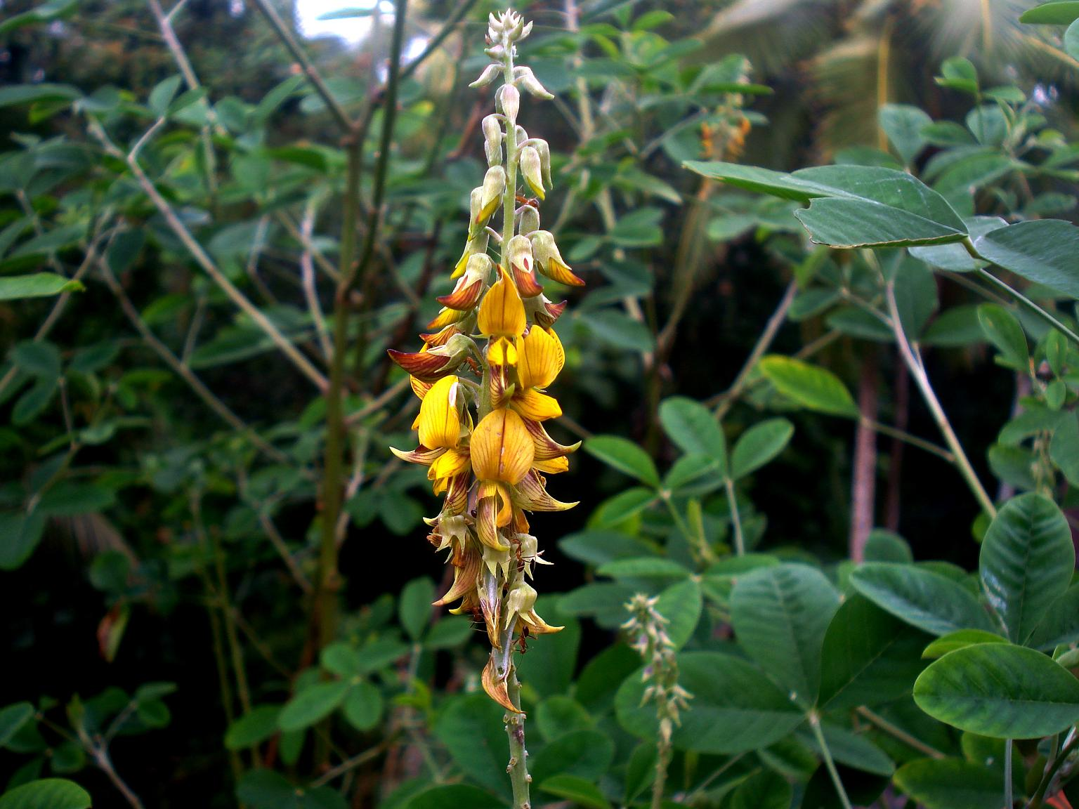 Name : Crotalaria juncea Family : Fabaceae